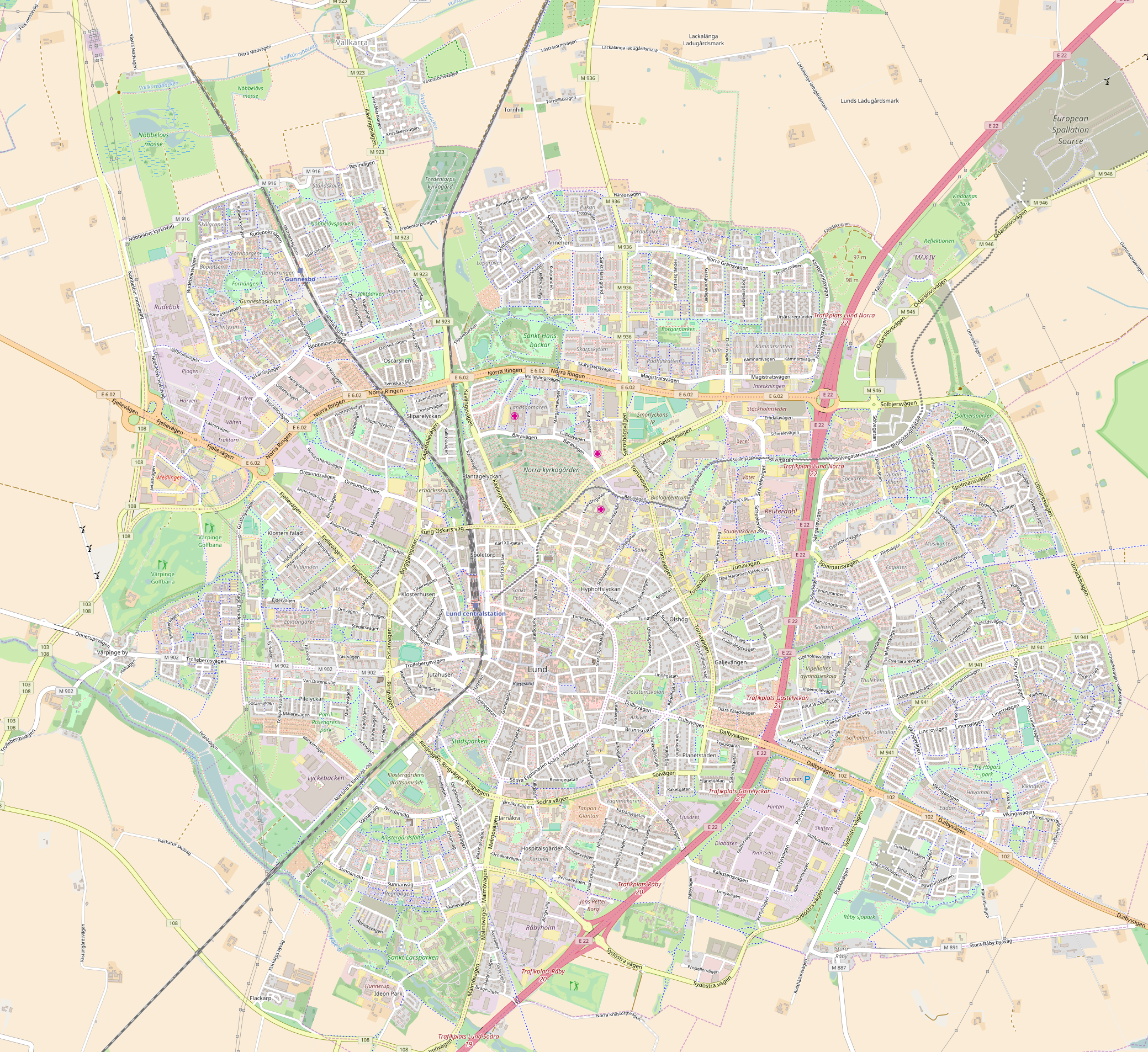 Map of Lund, Sweden